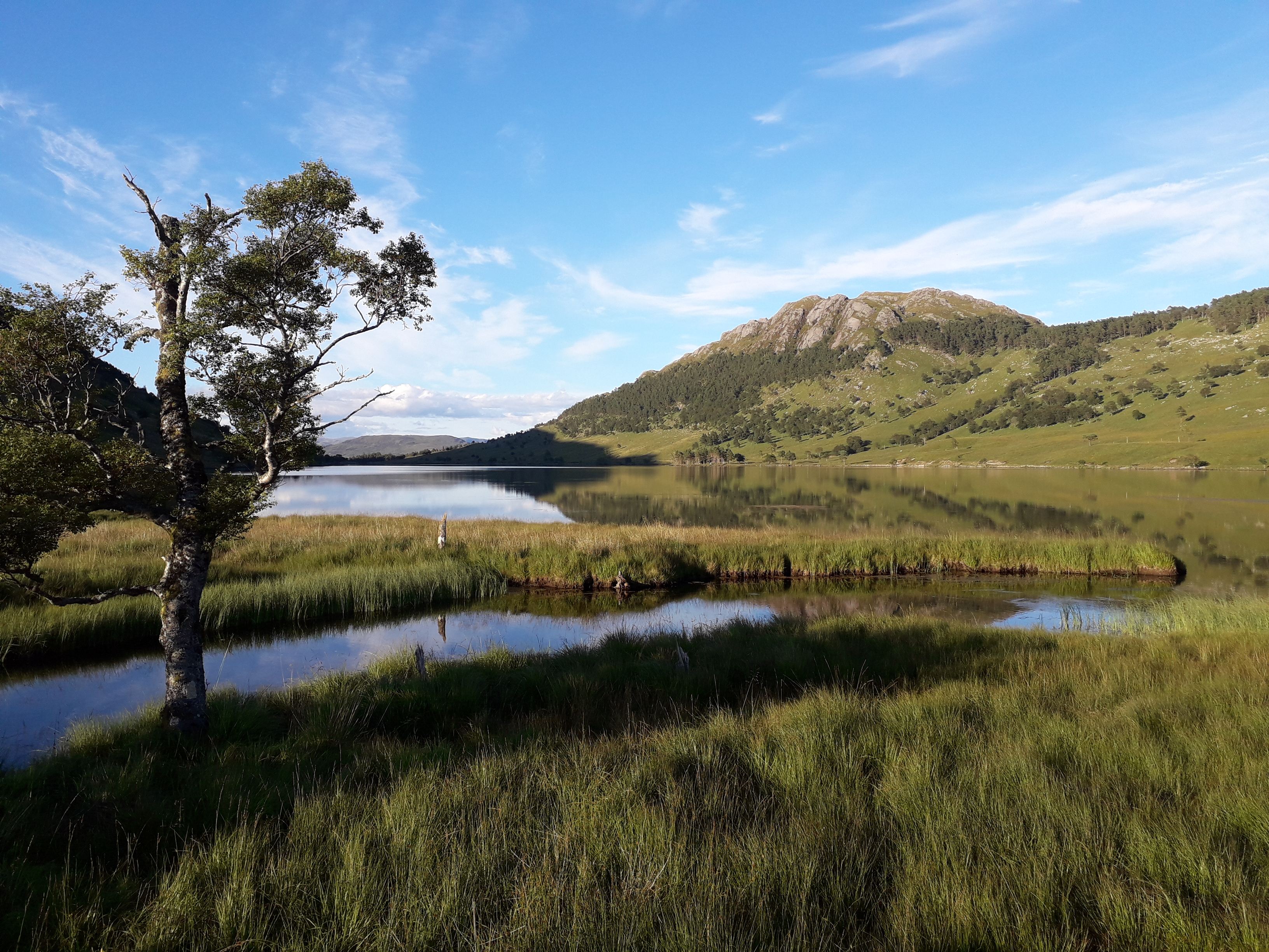 Image of the landscape of the eastern Lochan na h-Earba and the hills surrounding it. Taken from the southwestern end of the loch, The hill to the right is Creag a' Chur.